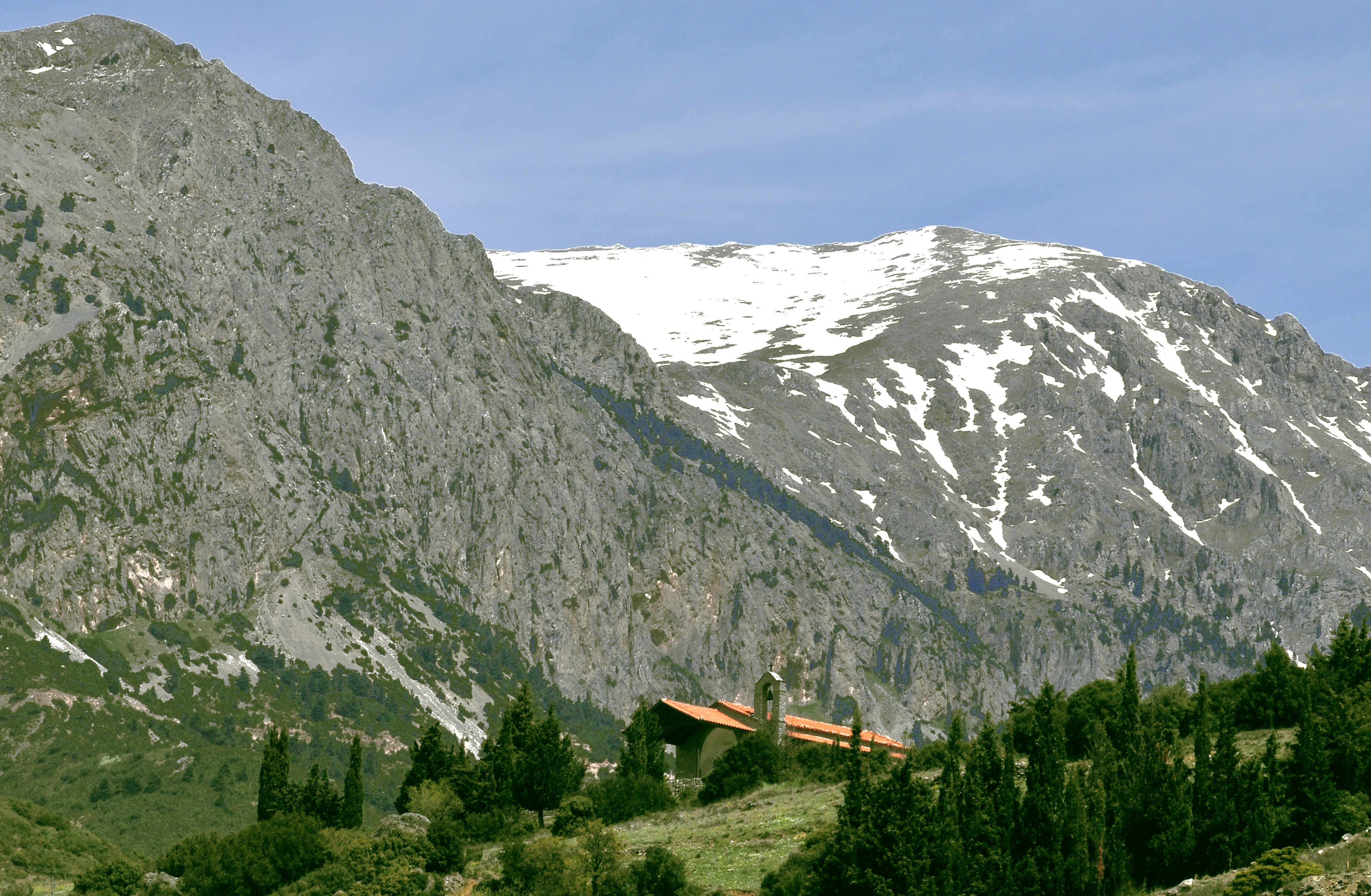 Slope with Greek fir [Abies cephalonica] forest, and chapel, on the foothill of Mont Parnassus, from EO48 route. Phocis, Greece